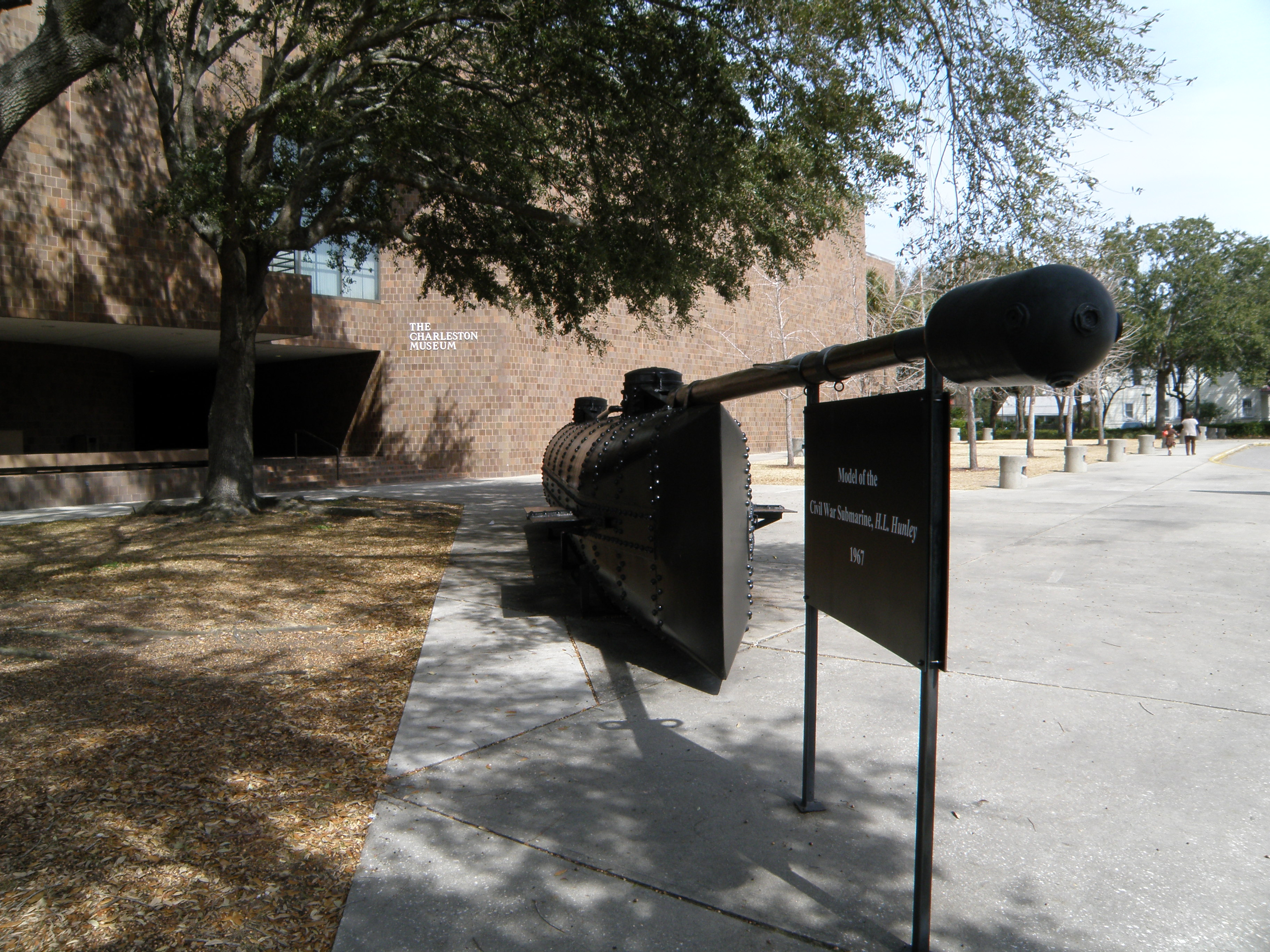 A life size model of the CSS Hunley, a Confederate submarine used in Charleston Harbor during the Civil War. It is considered the first submarine to ever sink an enemy warship. It was also a very unlucky vessel- every crew that served on it also died on it. After the third time it was lost with all hands it was not raised and re-used. The real Hunley was actually salvaged a few years ago and is undergoing restoration in Charleston. This image gives a clear view of the spar and torpedo attached to the front of the vessel. This replica is on display on the grounds of The Charleston Museum, Charleston, SC.